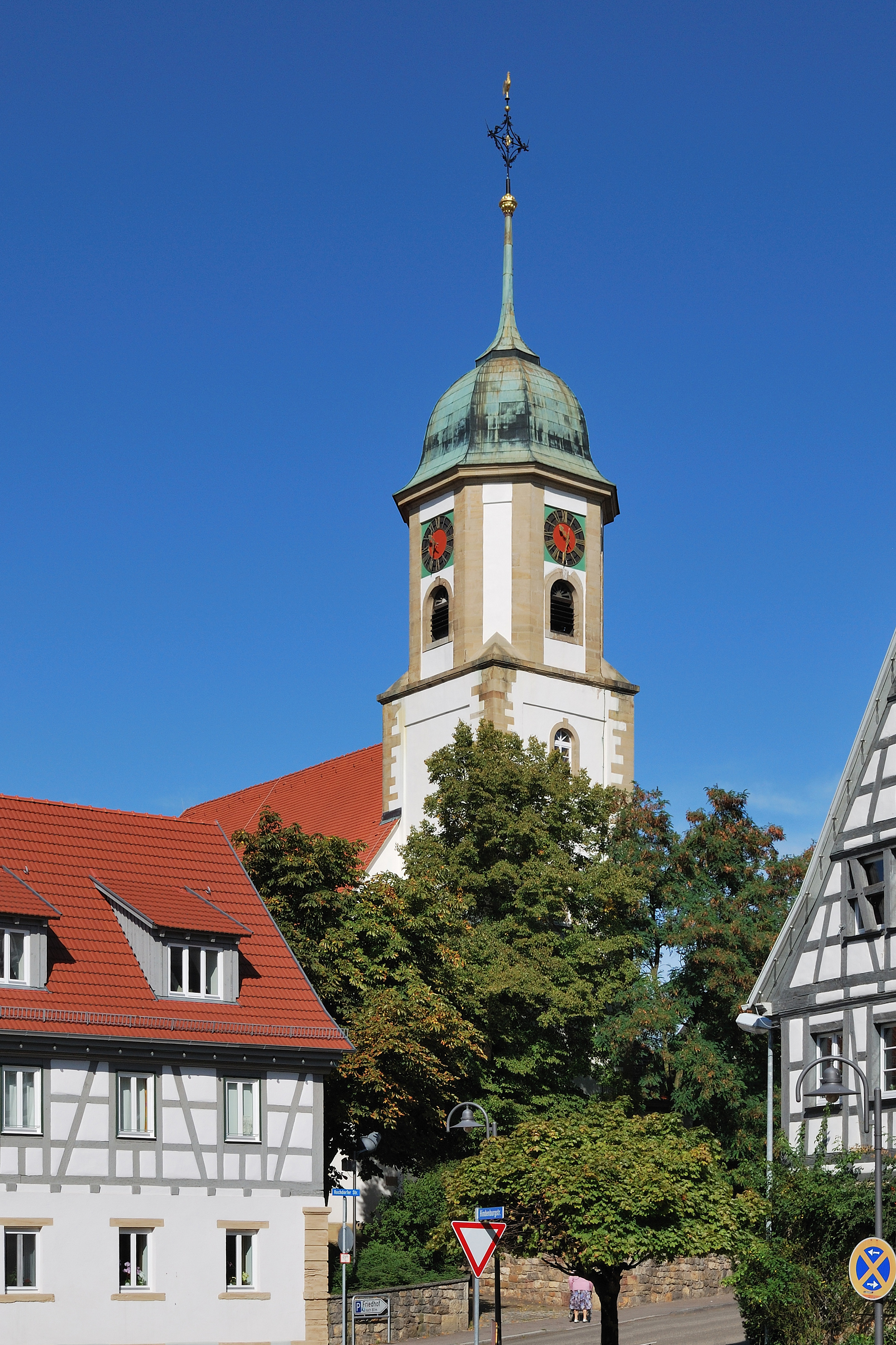 Evangelical parish church St. Peter and Paul in Heimerdingen in Baden-Württemberg in Germany. View from the East.